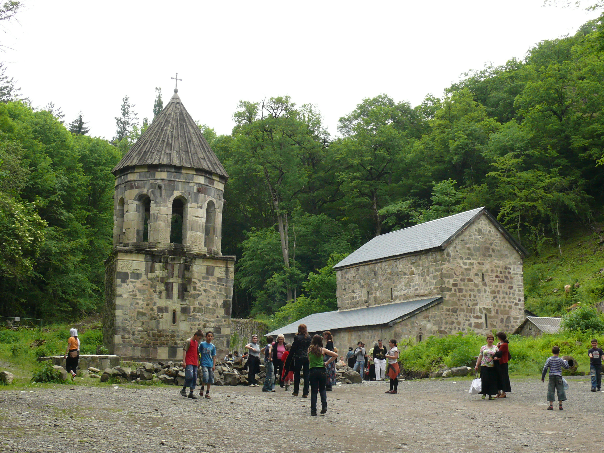 Green Monastery